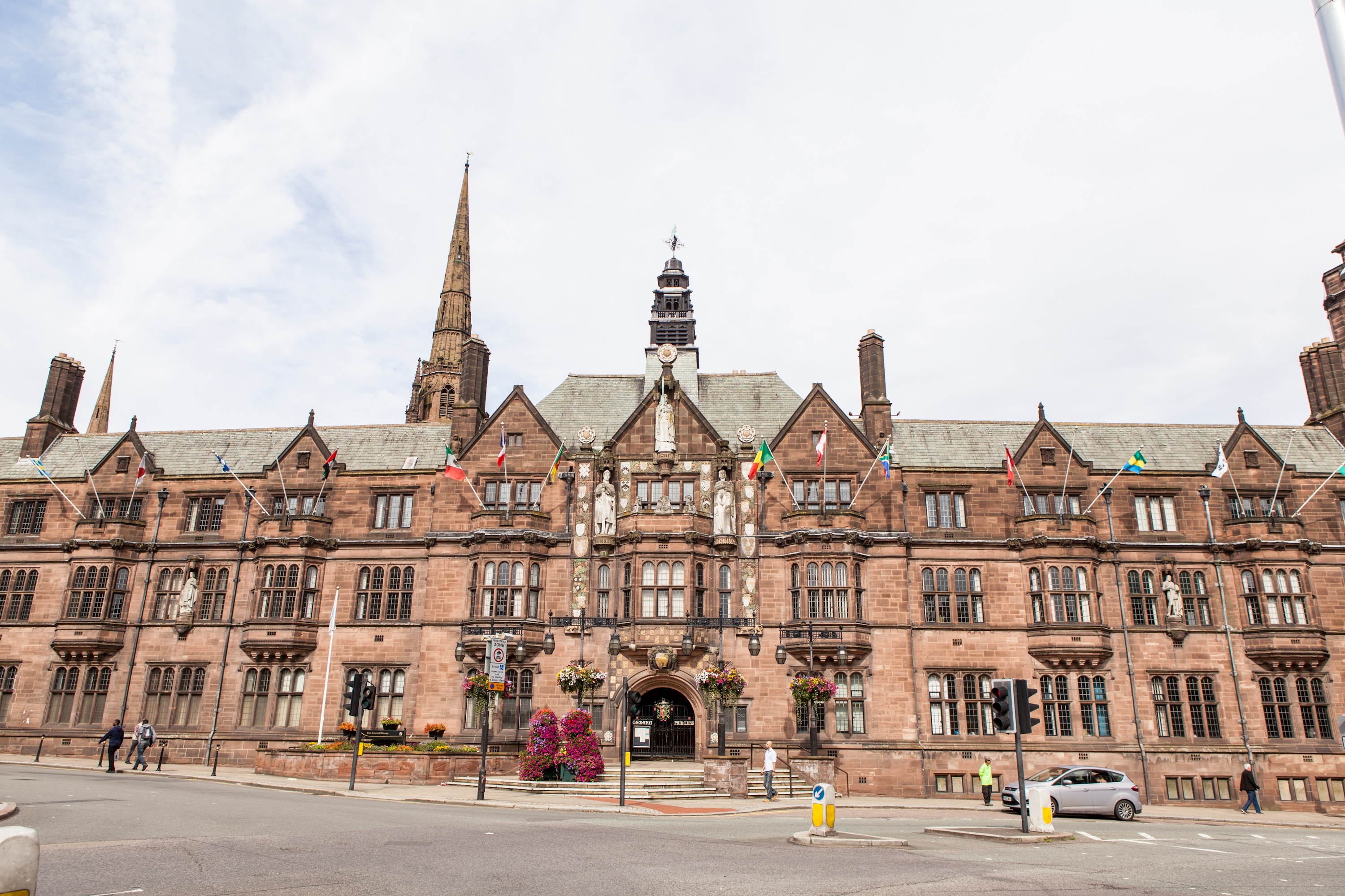 A10 - Coventry Council House in Coventry, UK